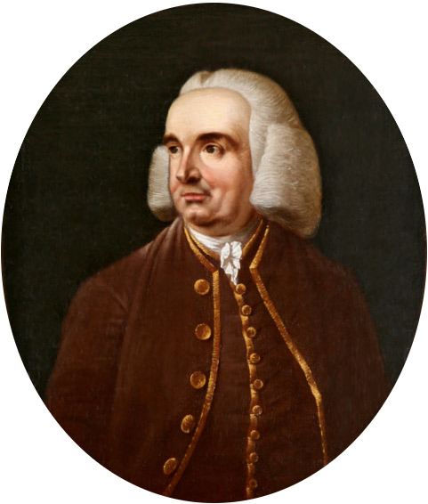 Portrait of Francis Drake (1696–1771), an English antiquary and surgeon.